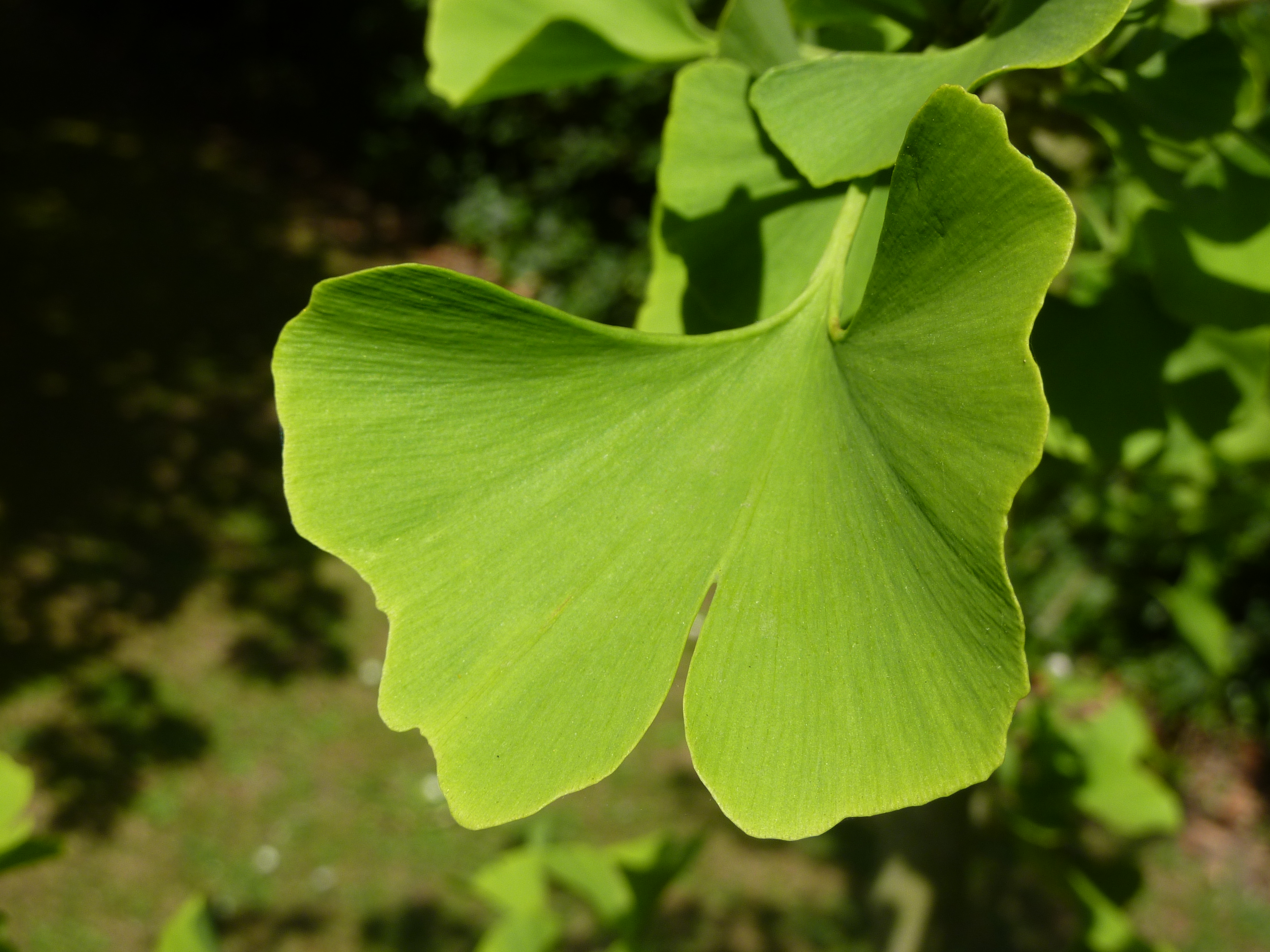 Taken in the Cambridge University Botanic Garden